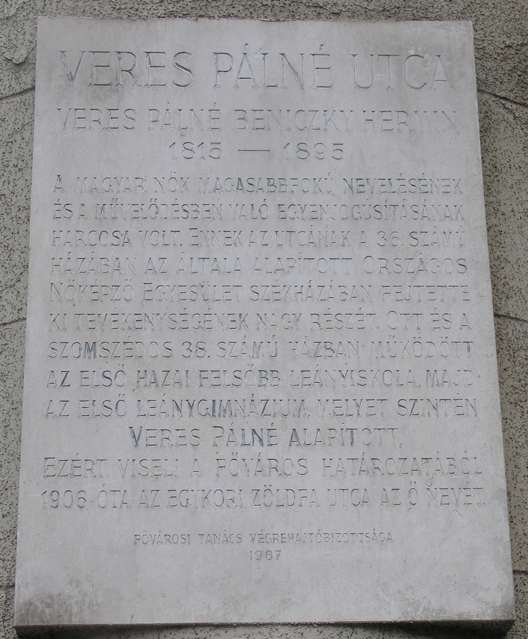 Commemorative plaque of Pálné Veres in Budapest District V, Veres Pálné Street No 44